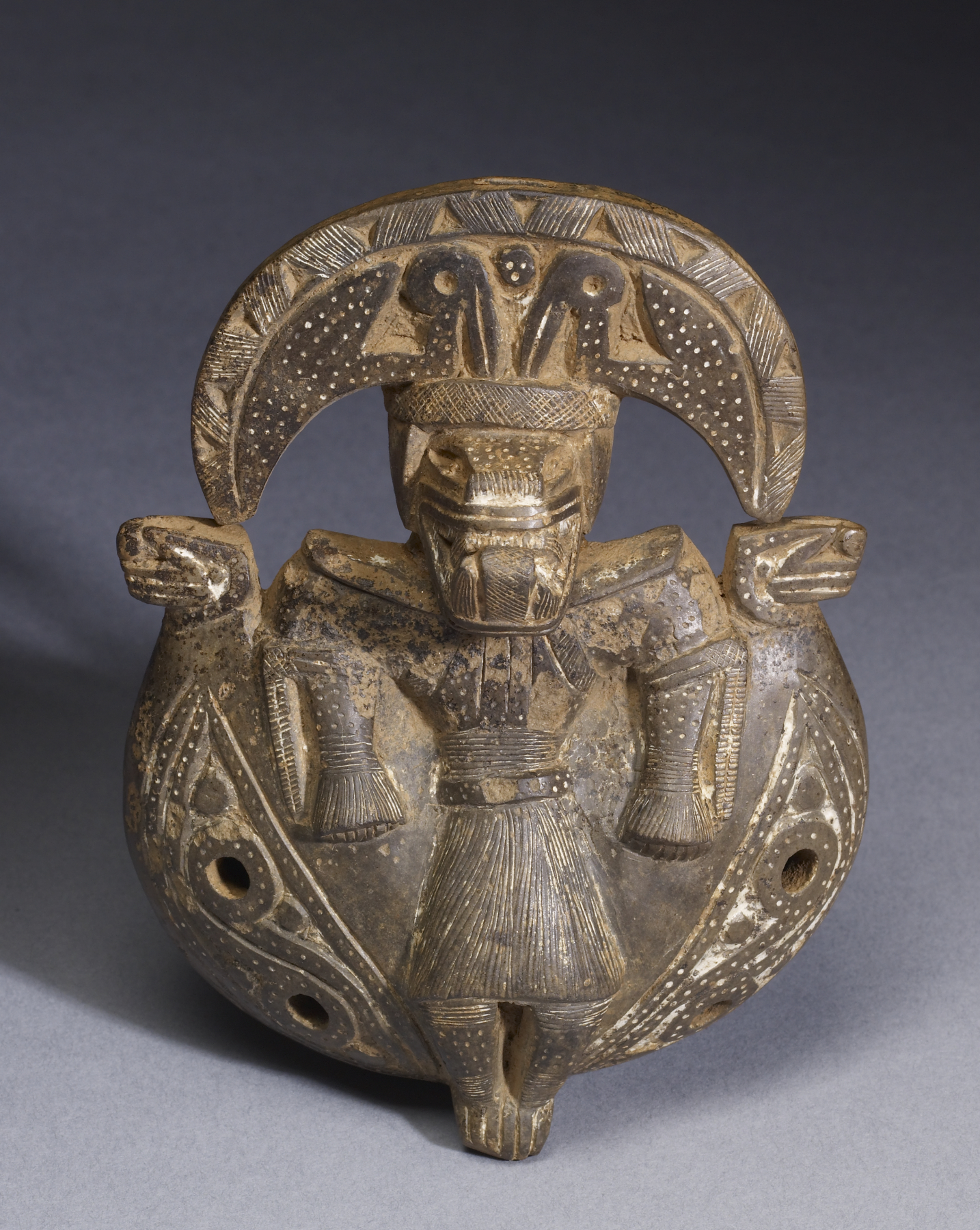 Along with figurines, flutes and whistles were one of the most common artifacts made by ancient Pre-Columbian artists, and they are found in every culture, from the earliest times. This Tairona example closely resembles objects of other mediums (like gold), which are not whistles and depict winged figures. Such whistles are still used among the Kogi people of Columbia, who descended from the Tairona, and the wing forms may refer to shamanic flight.